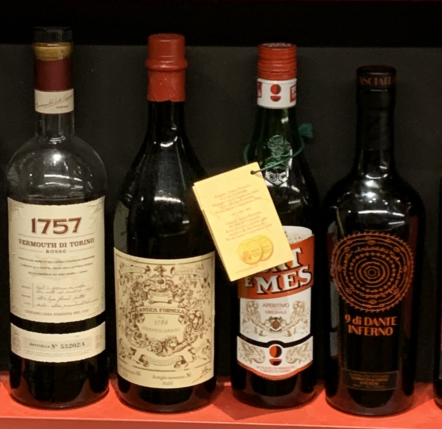 A collection of leading Vermouth di Torino brands, including 1757, Antica Formula and 9 di DANTE